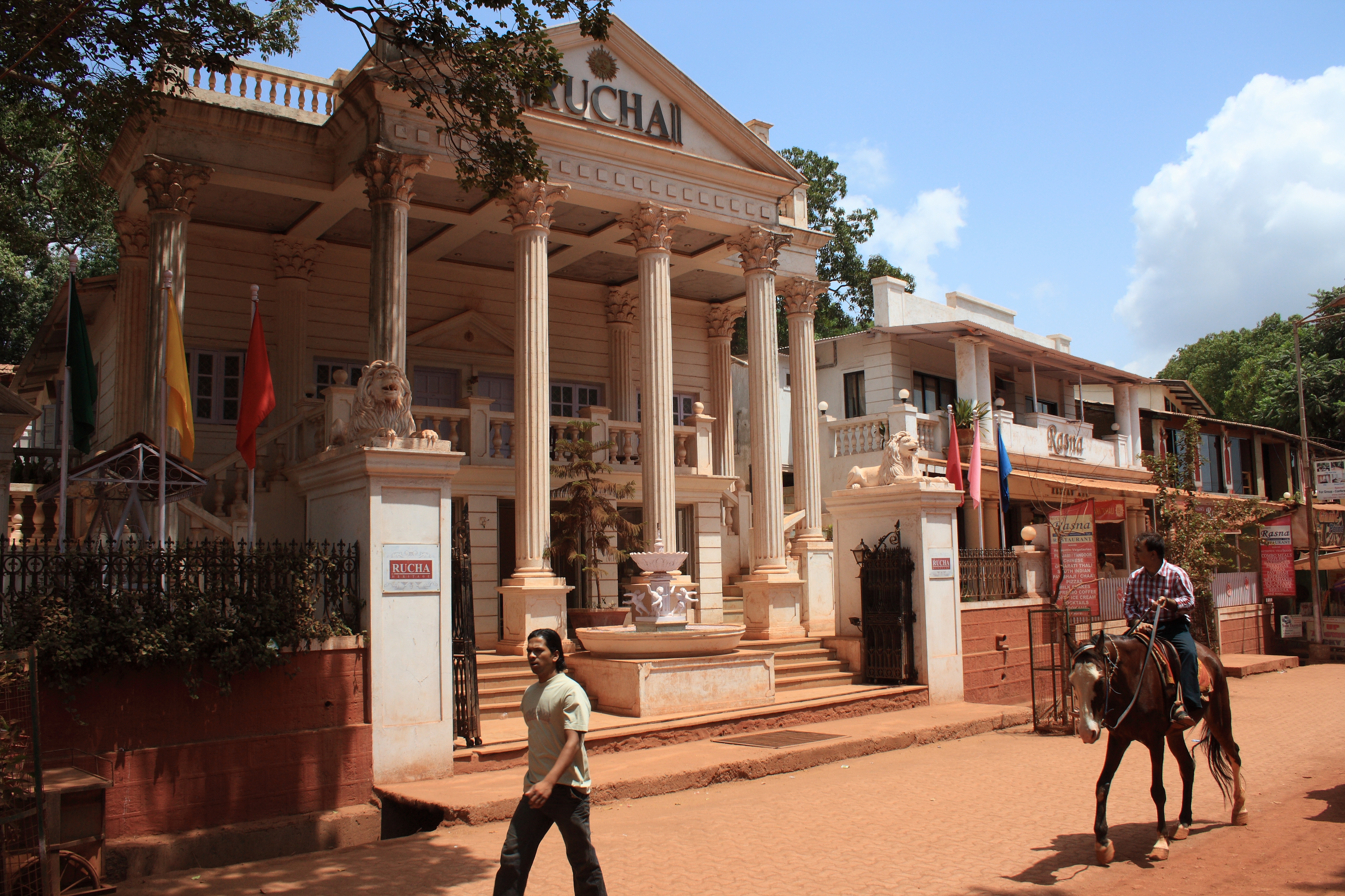 A Hotel in Matheran. The front looks like a palace. Tha back has corrugated iron on the roof... As Matheran is a car free town, horses are an important mean of transport.